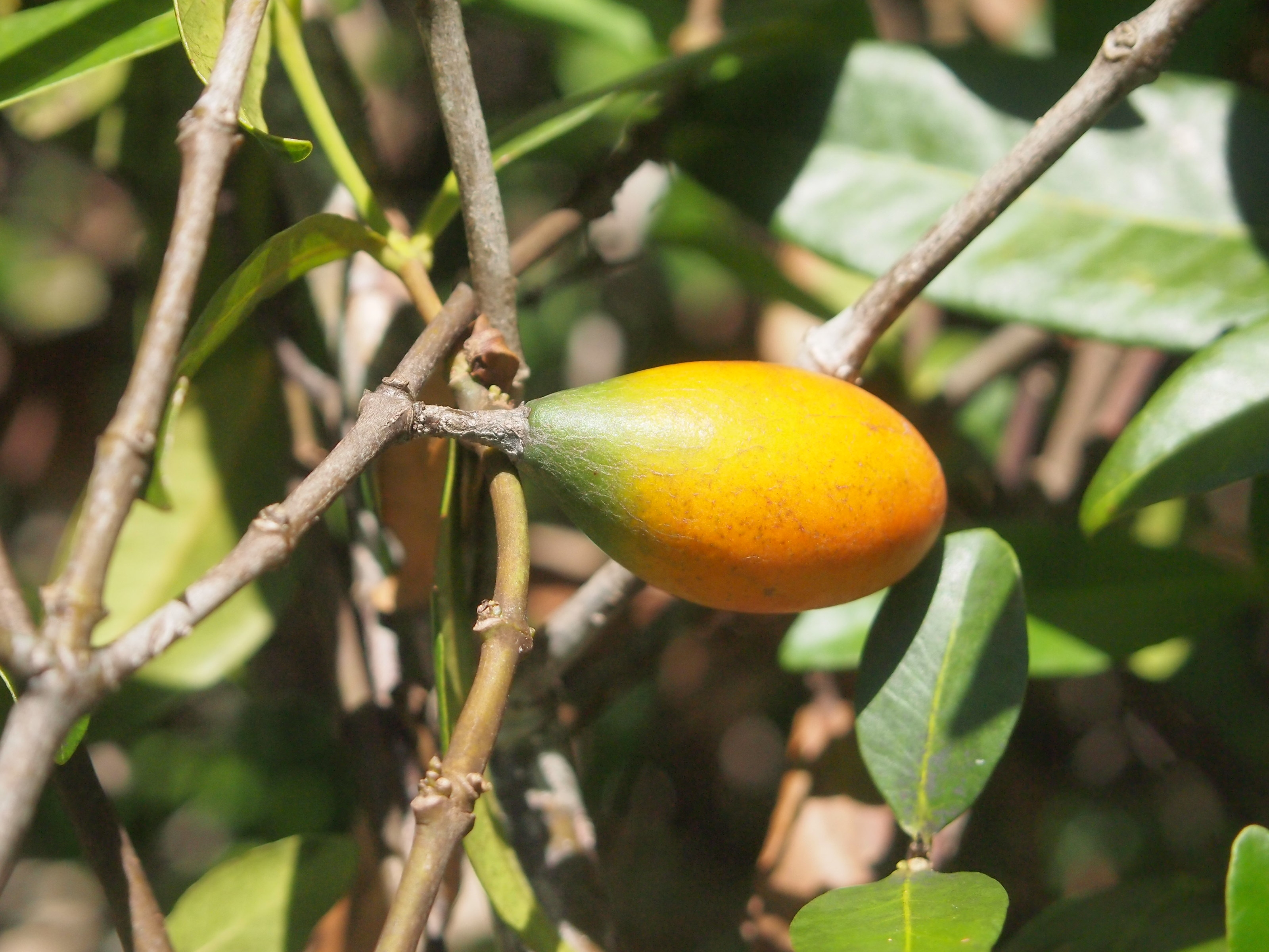 Melodinus australis fruit